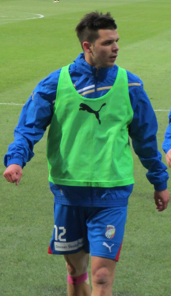 Michal Ďuriš of FC Viktoria Plzeň warming up before the match against FK Dukla Praha